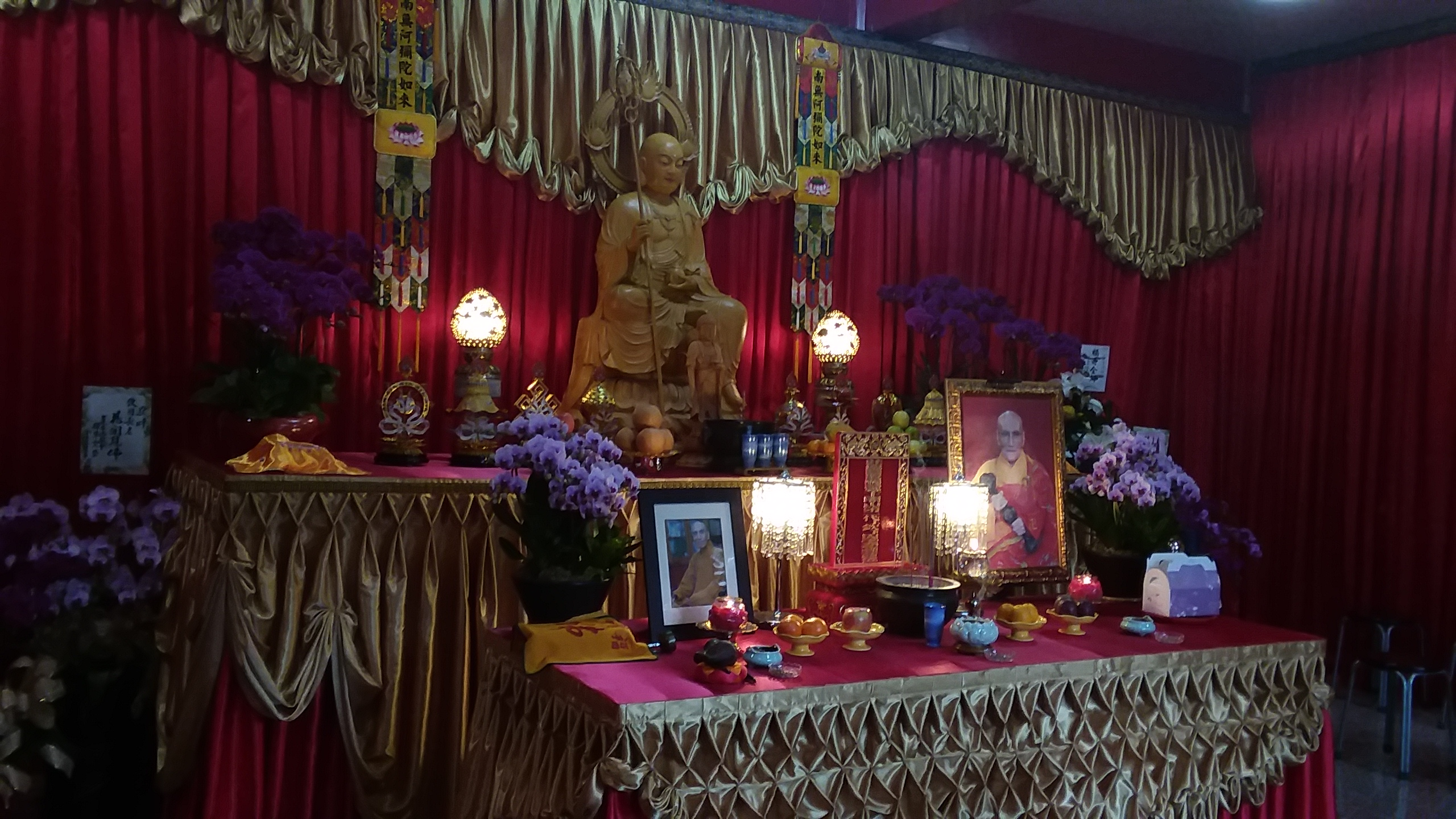 Mourning hall for reverent Master Chin-Yin, who passed away on Jan 22, 2018